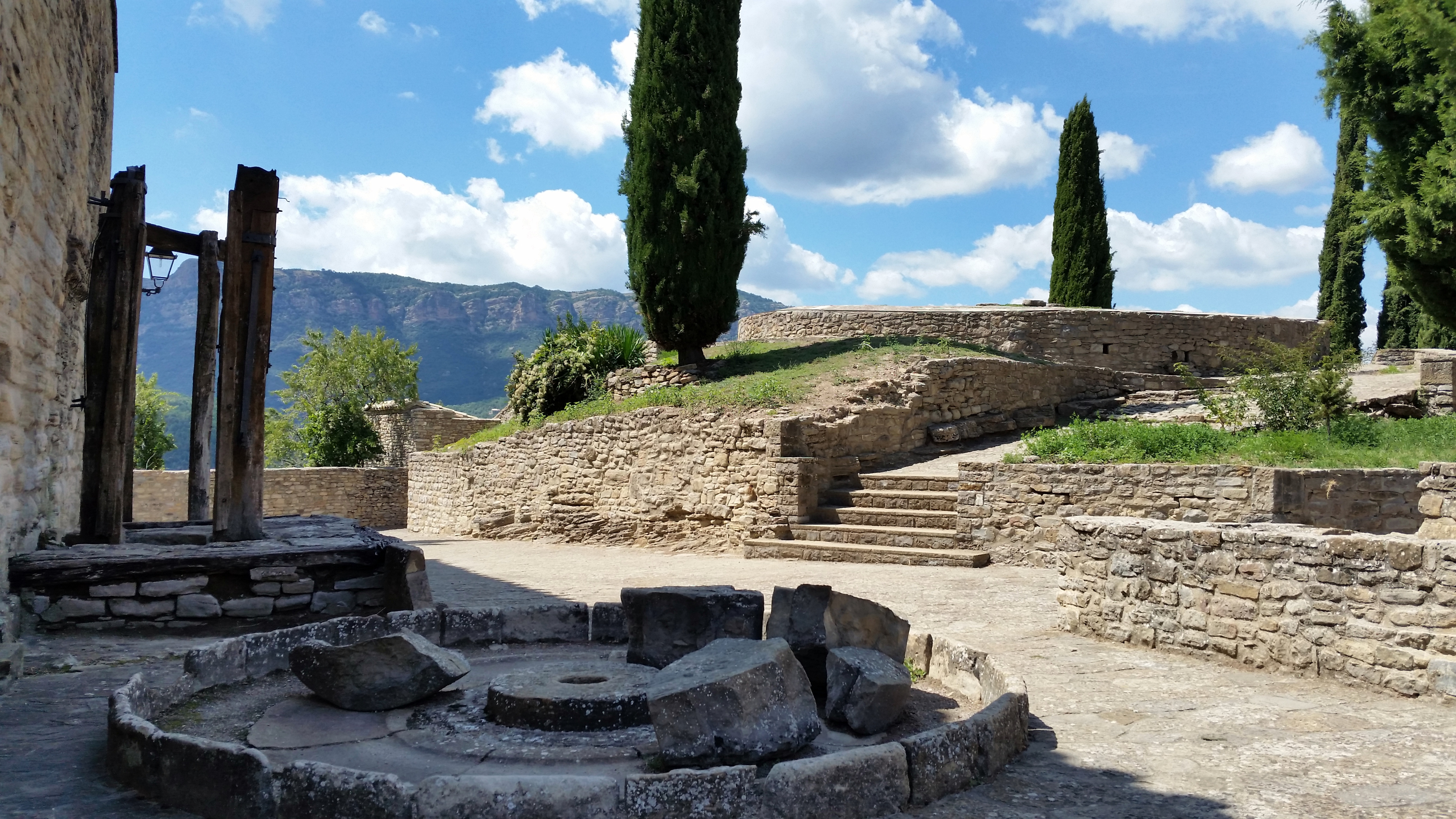 view from front of Palace Roda de Isabena